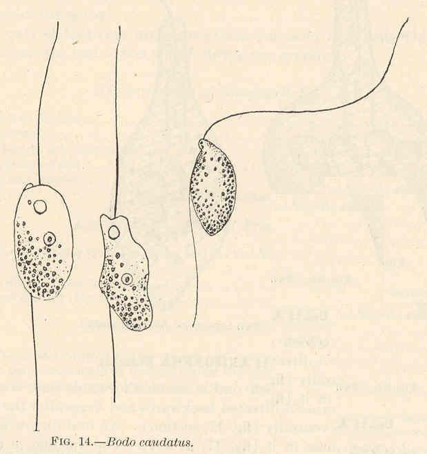 Boda caudatus Subject: Bodo, Protozoa Tag: Invertebrates